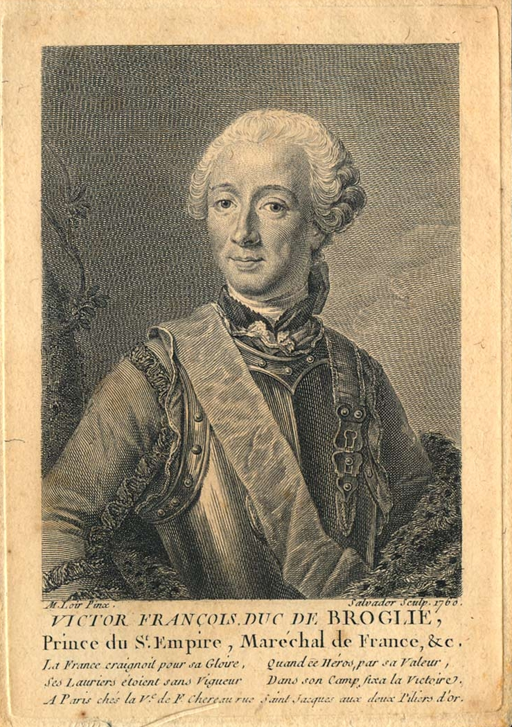 Portrait of Victor François de Broglie (1718-1804), 2nd Duke of Broglie created 1760 by Salvador, scanned by Stifts- och landsbiblioteket of Skara.